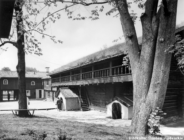 The old house "Kungsstugan", Örebro, Sweden